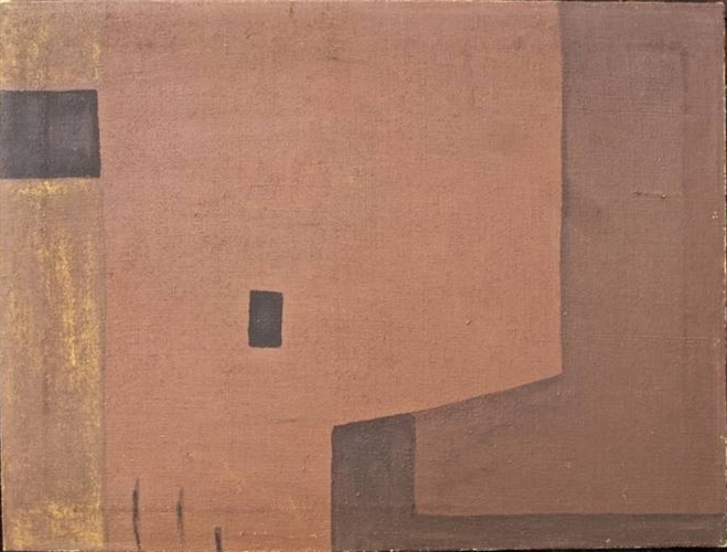 Untitled, 1956 Oil on jute. 21 x 26 in. (53.34 x 66.04 cm.) Signed; "MIRA" and dated on verso.